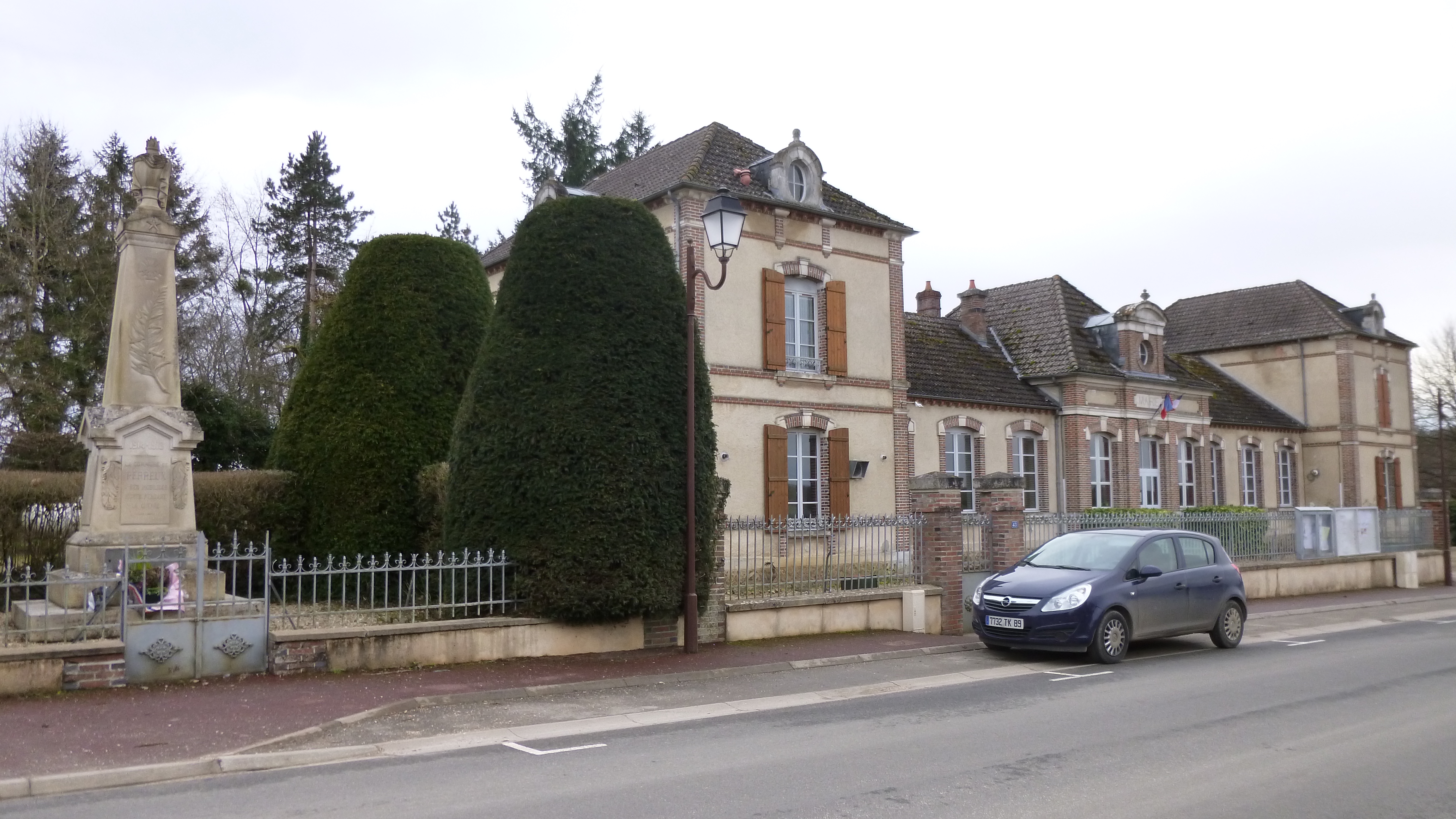 Perreux, Yonne, Burgundy, France. War monument, with the town hall beside it.